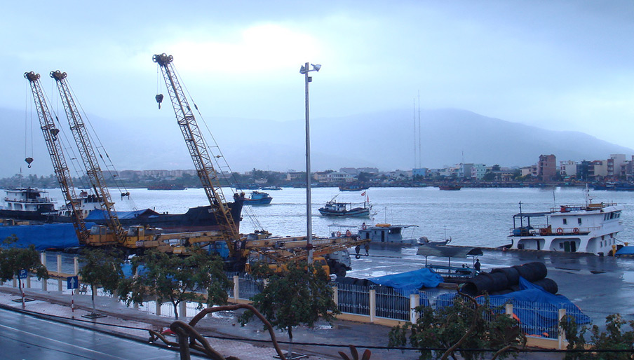 Overlooking Song Han Terminal, Da Nang Port. In the distance is Son Tra Mountain, obscured by mist.